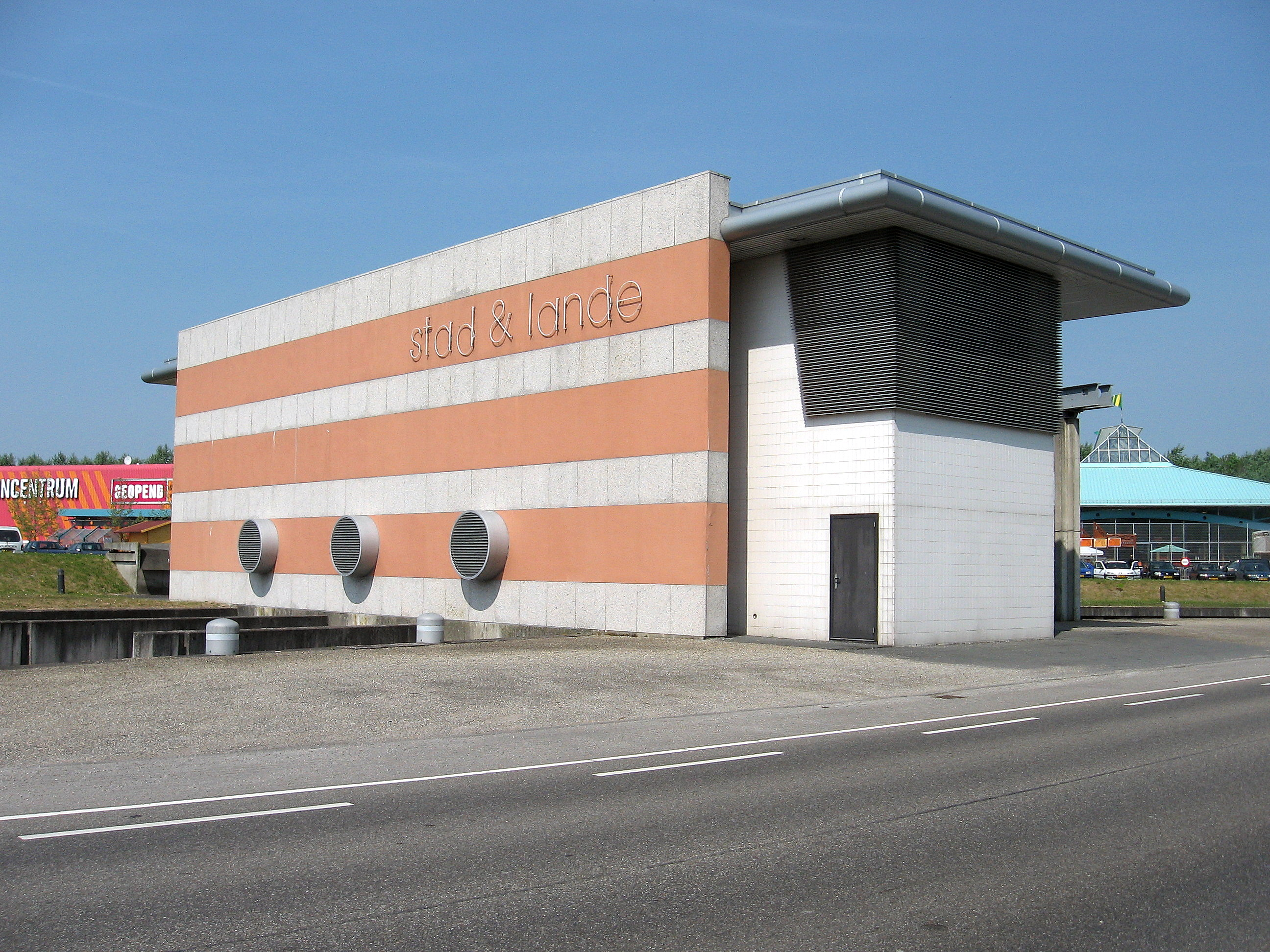 Pumping-station Stad & Lande in Groningen, The Netherlands